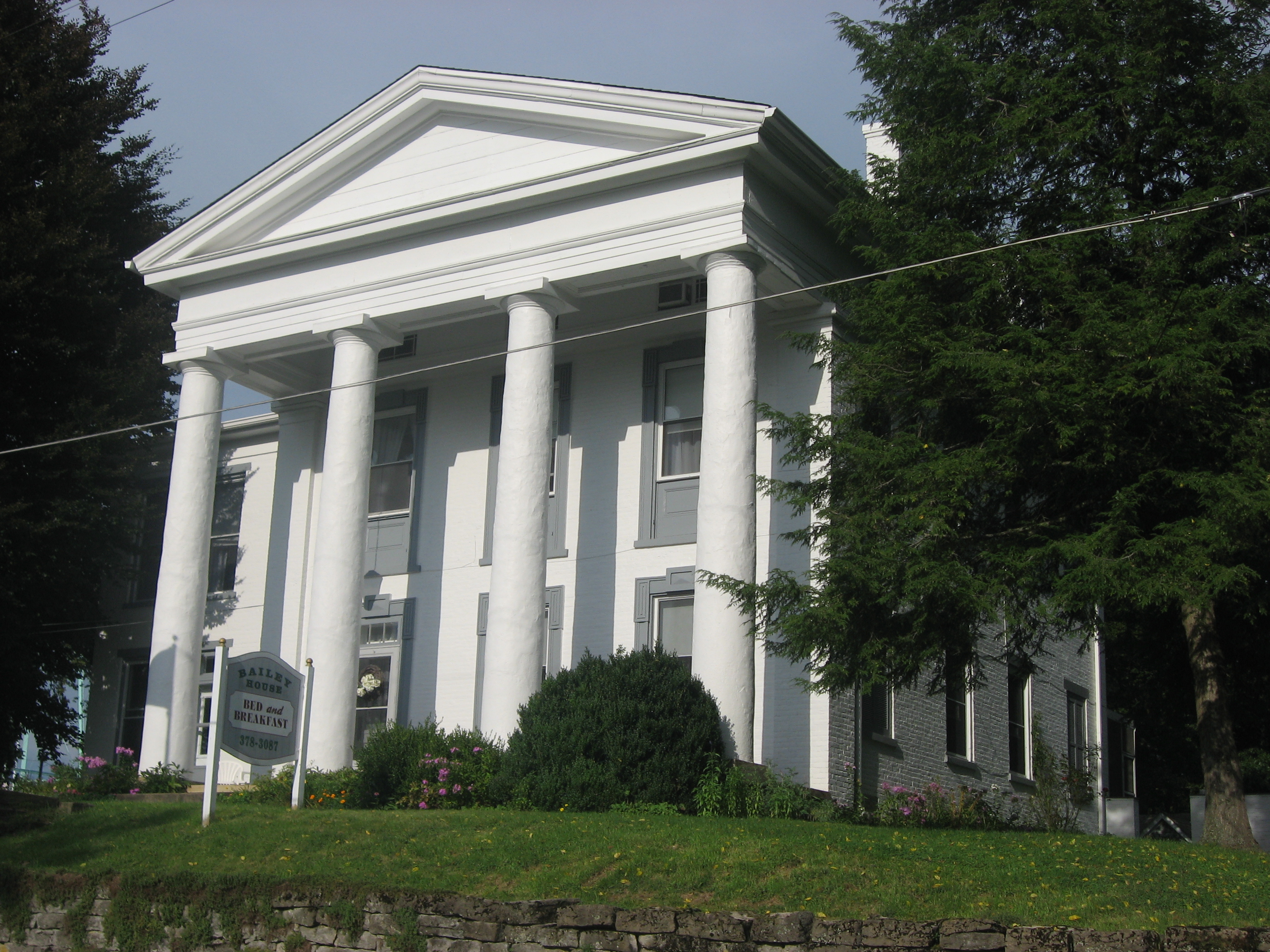 Front and southern side of the Bailey-Thompson House, located at 112 N. Water Street in Georgetown, Ohio, United States. Built in 1830, it is listed on the National Register of Historic Places.